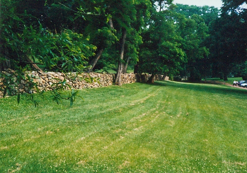 Stone wall at Marye's Heights, Fredericksburg, Virginia, USA